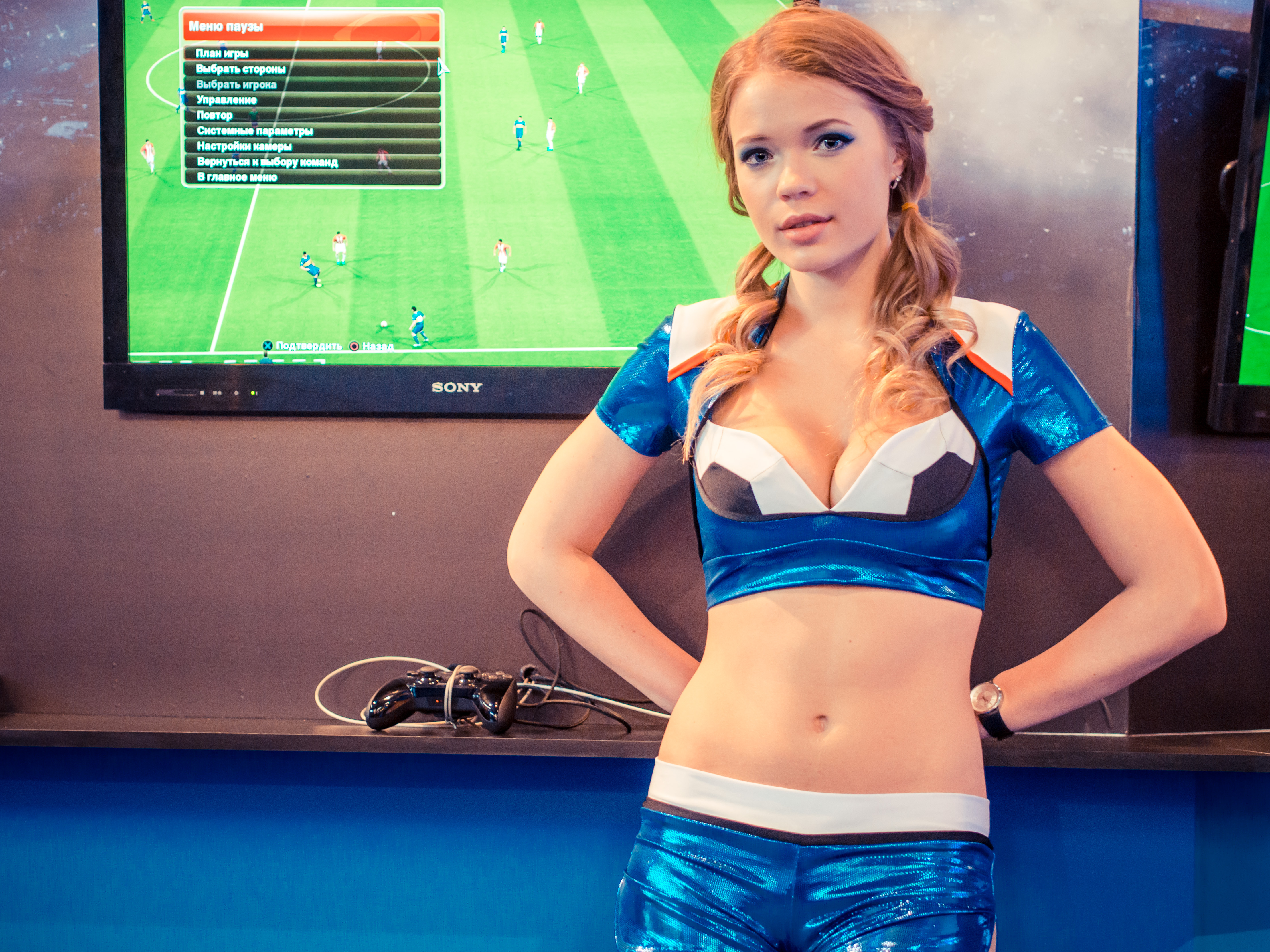 Russian gaming expo